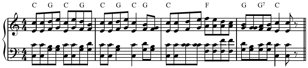 Yankee doodle harmonization.